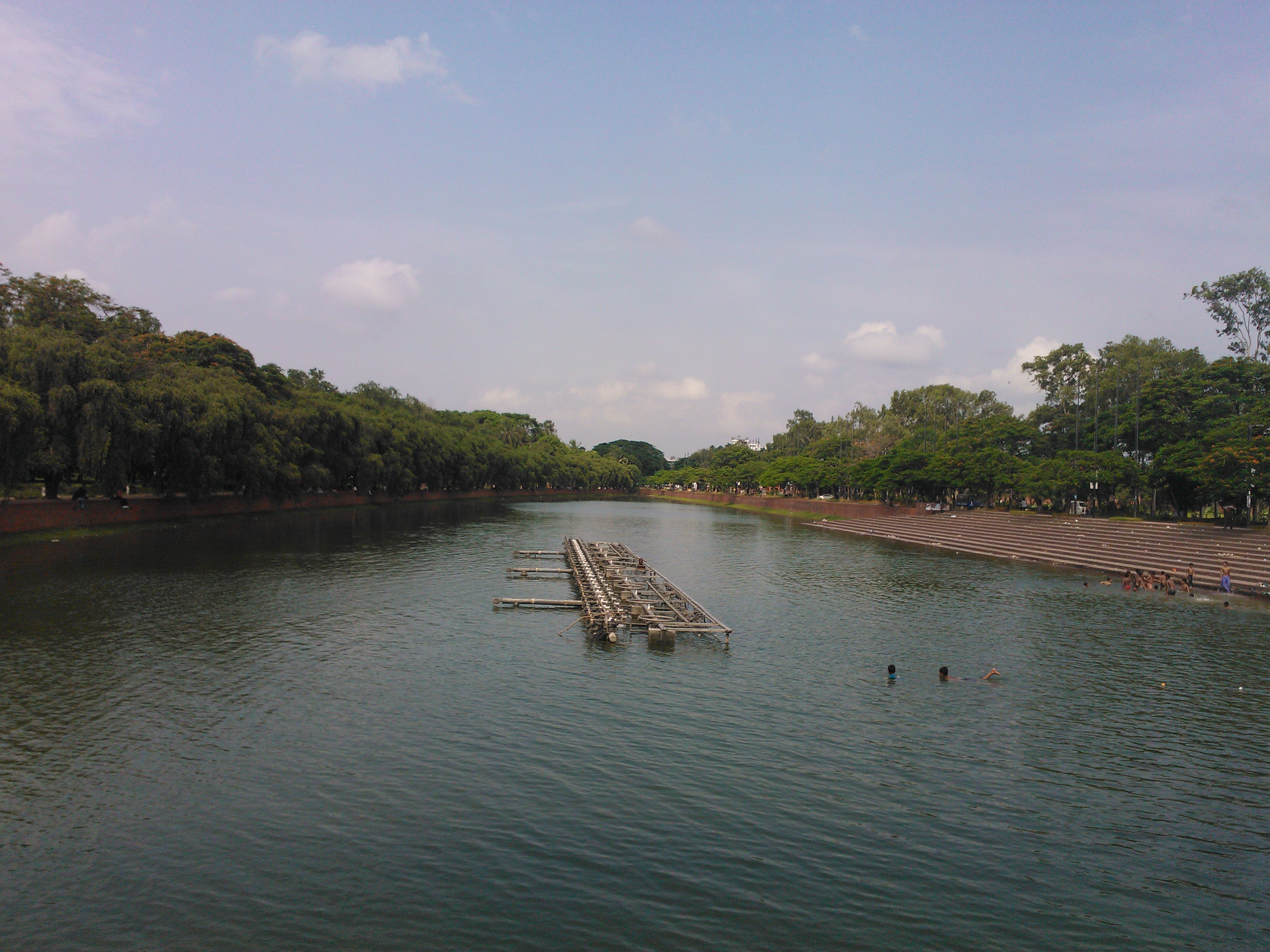 Crescent Lake at Chandrima Uddan, Dhaka, Bangladesh.